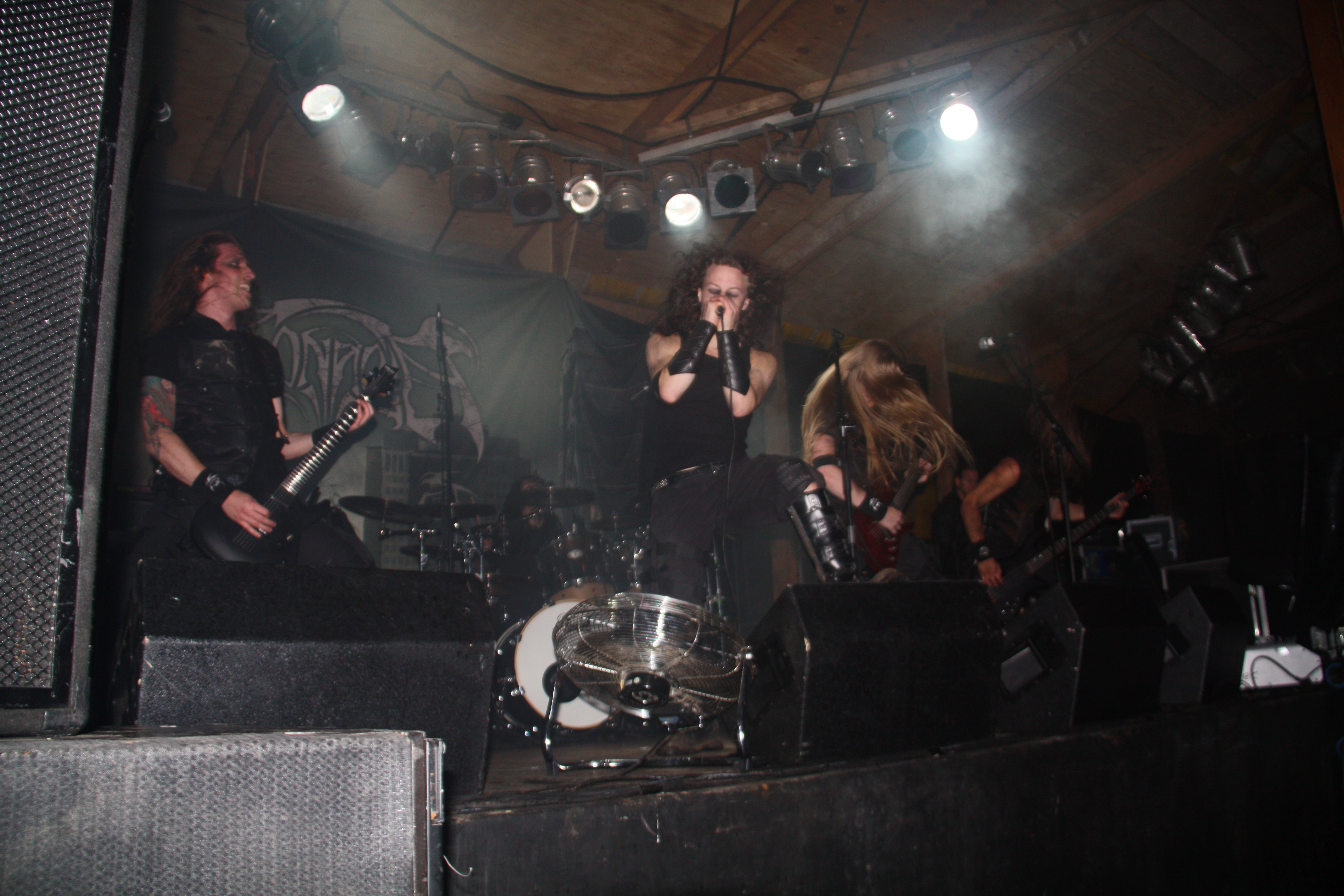 Zonaria on Occultfest 2010, friday september 3rd